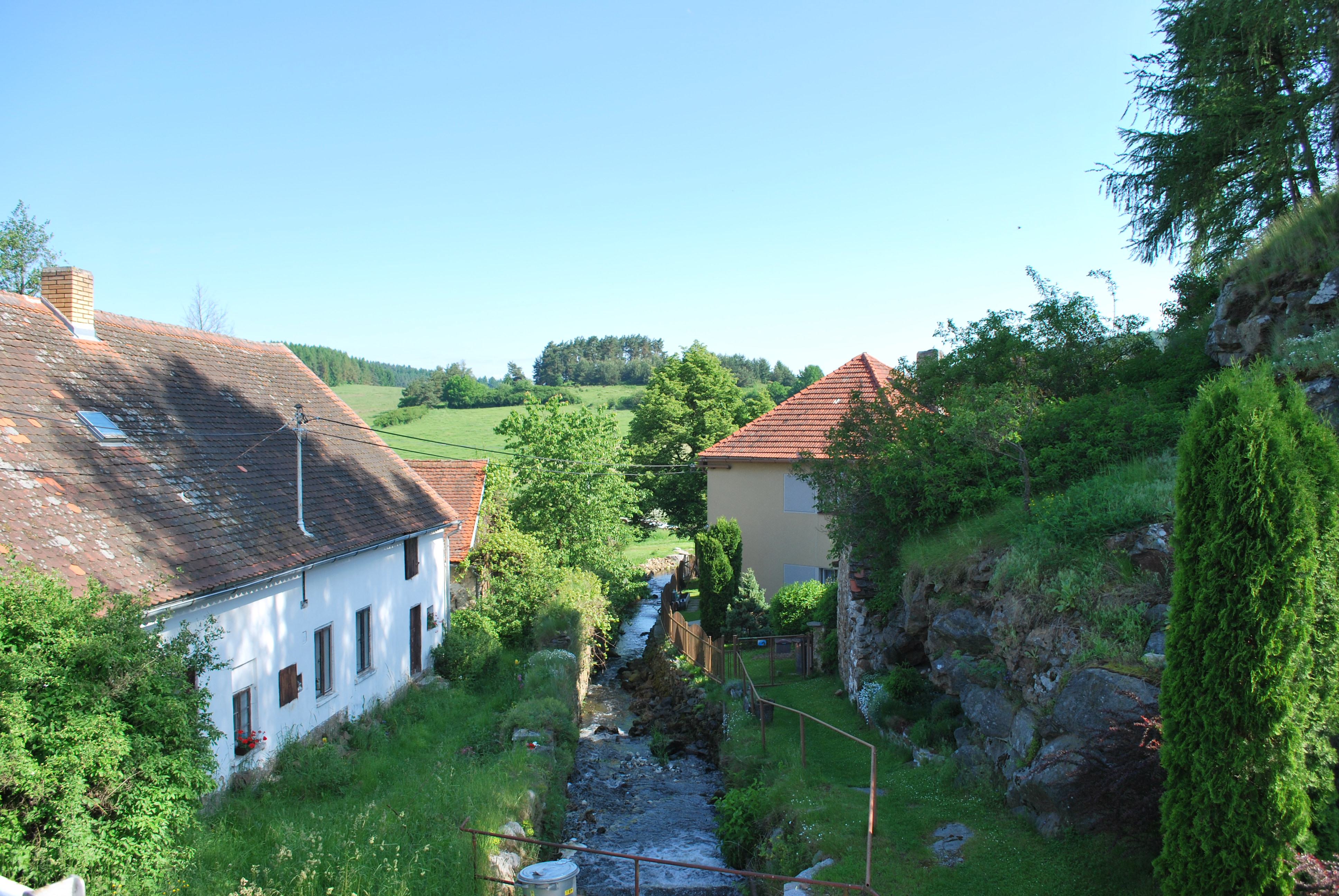 Frymburk village in Klatovy District, Czech republic. This photograph was taken within the scope of the 'Czech Municipalities Photographs' grant. - Google Maps - Google Earth